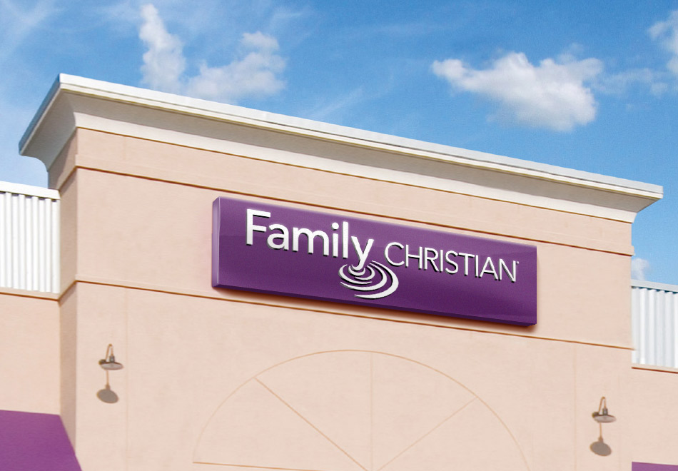 Here is a recent image from one of Family Christian's newest stores.